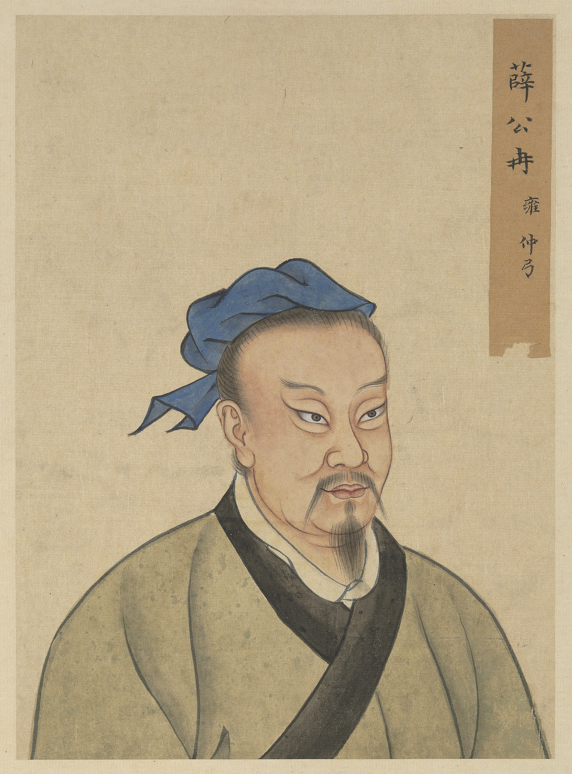 This depicts Ran Yong (冉雍), styled Zhonggong (仲弓).